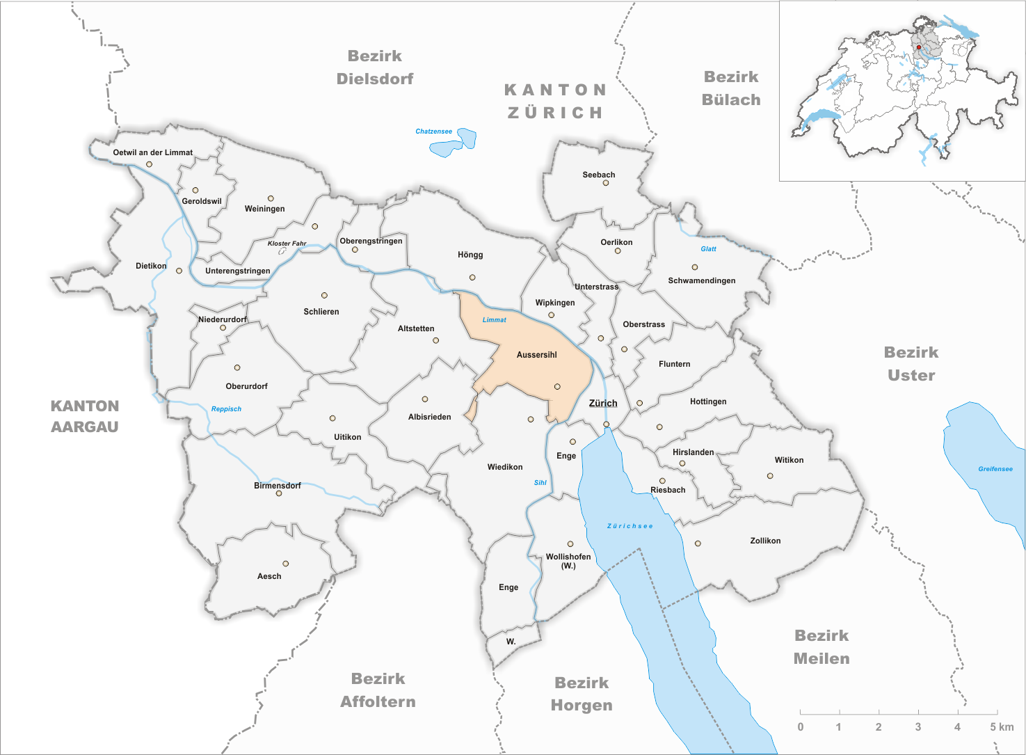 Municipality Aussersihl